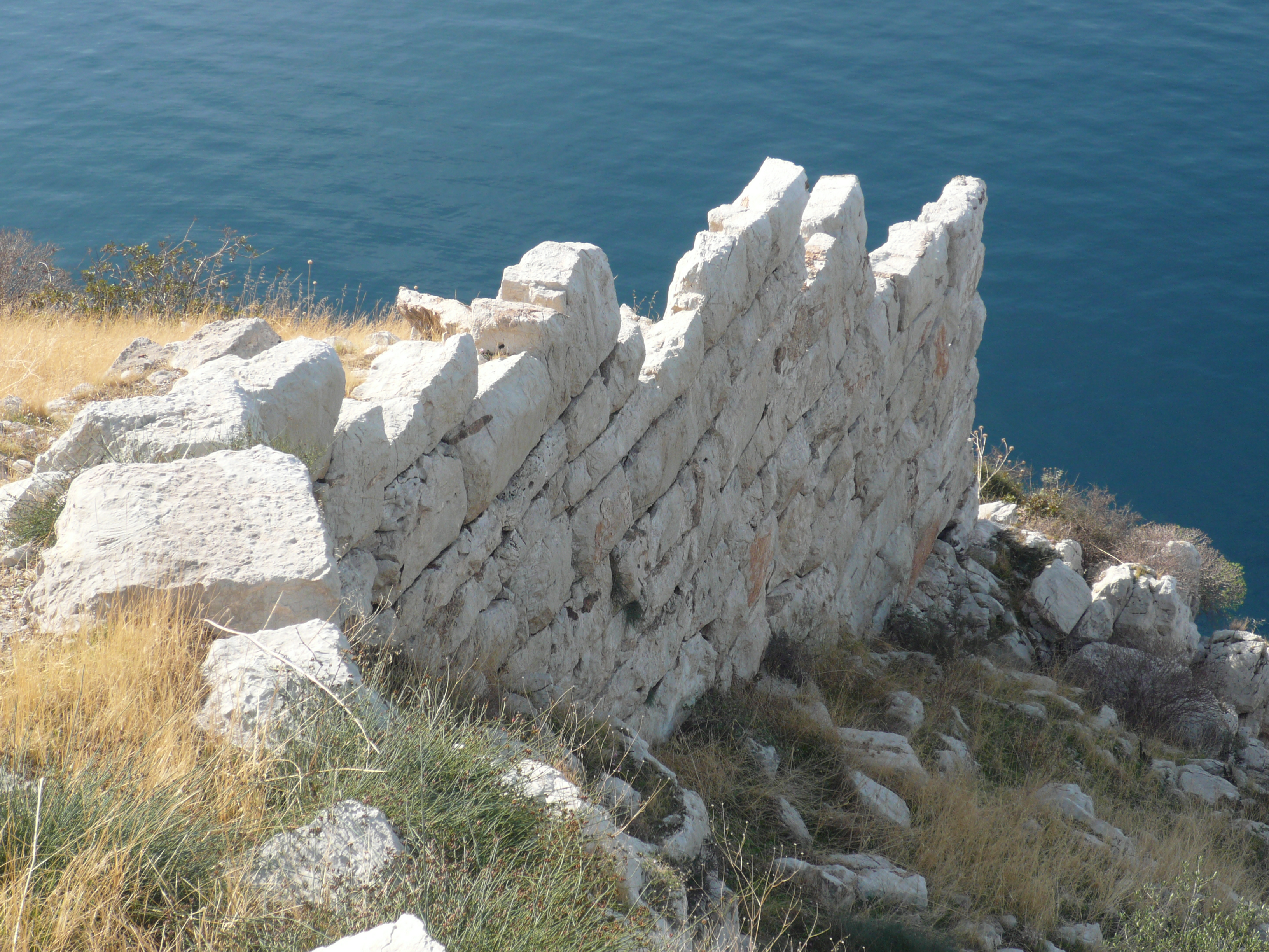 Acropolis of Medeon, Boeotia, Greece